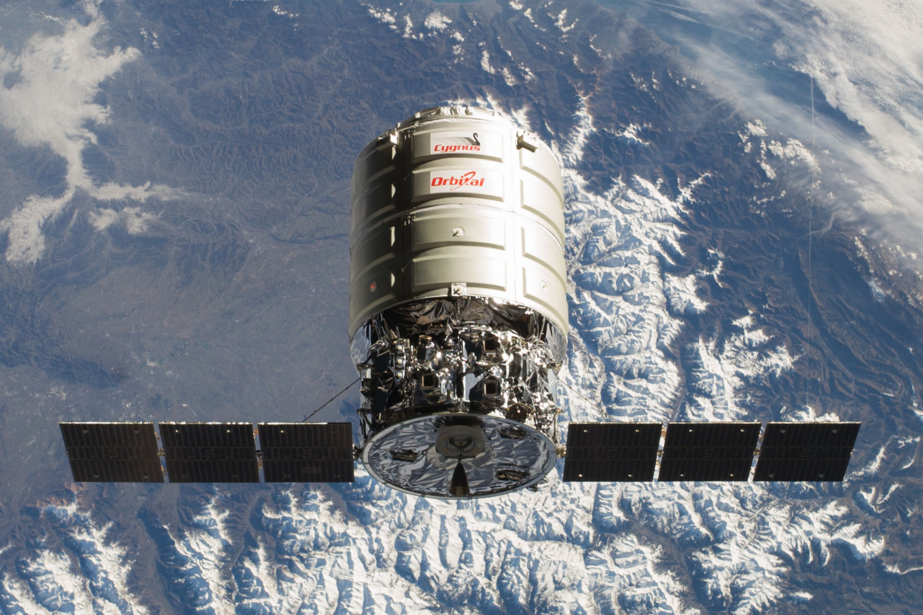 The Canadarm2 moves toward the Orbital Sciences Corp. Cygnus commercial cargo craft as it approaches the International Space Station on Jan. 12, 2014. A colorful part of Earth provides the backdrop for the scene.